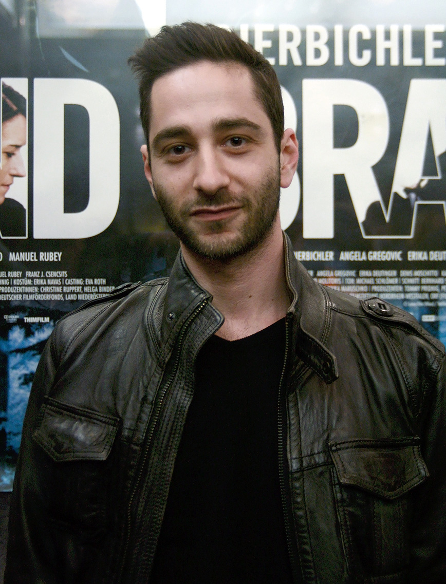 Denis Moschitto at the premiere of 'Brand' by Thomas Roth (Gartenbaukino, Vienna).